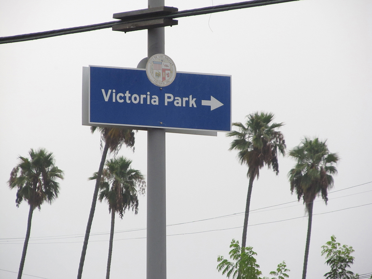 Victoria Park City Signage located at the intersection of Pico Boulevard and Windsor Boulevard.